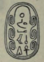 Scarab of pharaoh Maakheru Amenemhat IV, penultimate ruler of the 12th dynasty, 1897 drawing by Flinders Petrie.